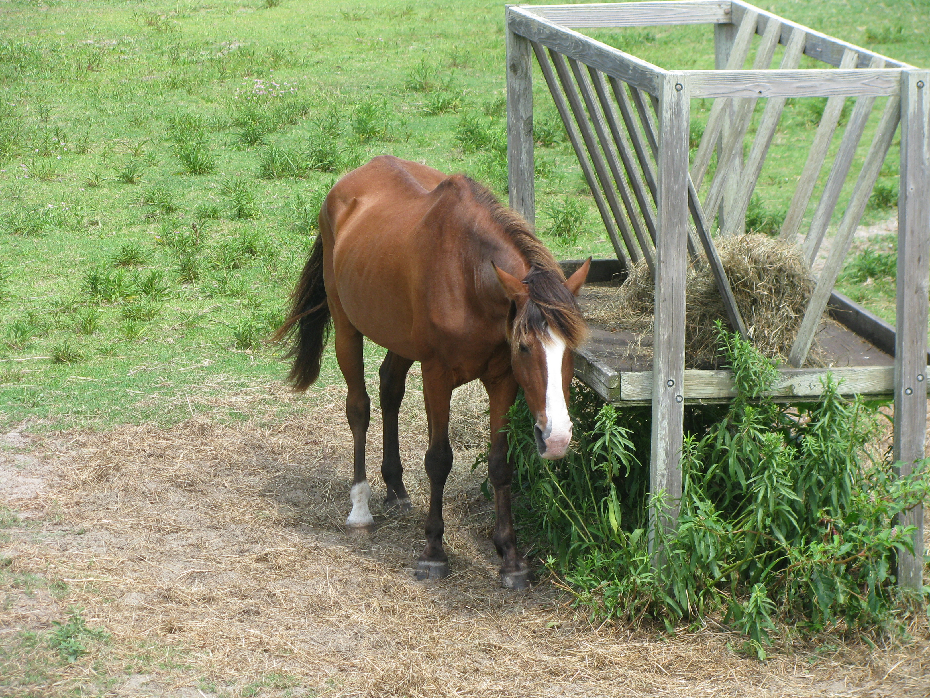 A Banker horse on Ocracoke, North Carolina, locally these horses are know as Ocracoke ponies.